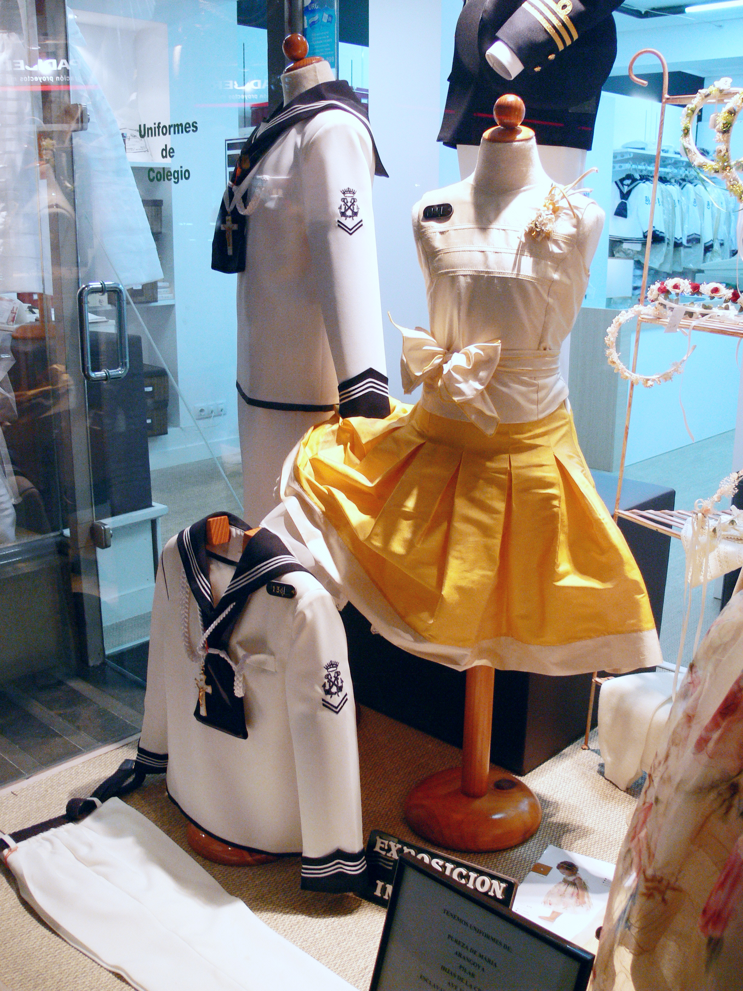 Typical children's clothing for the First Communion (including sailor suits), as seen in a Bilbao shopwindow, February 2008